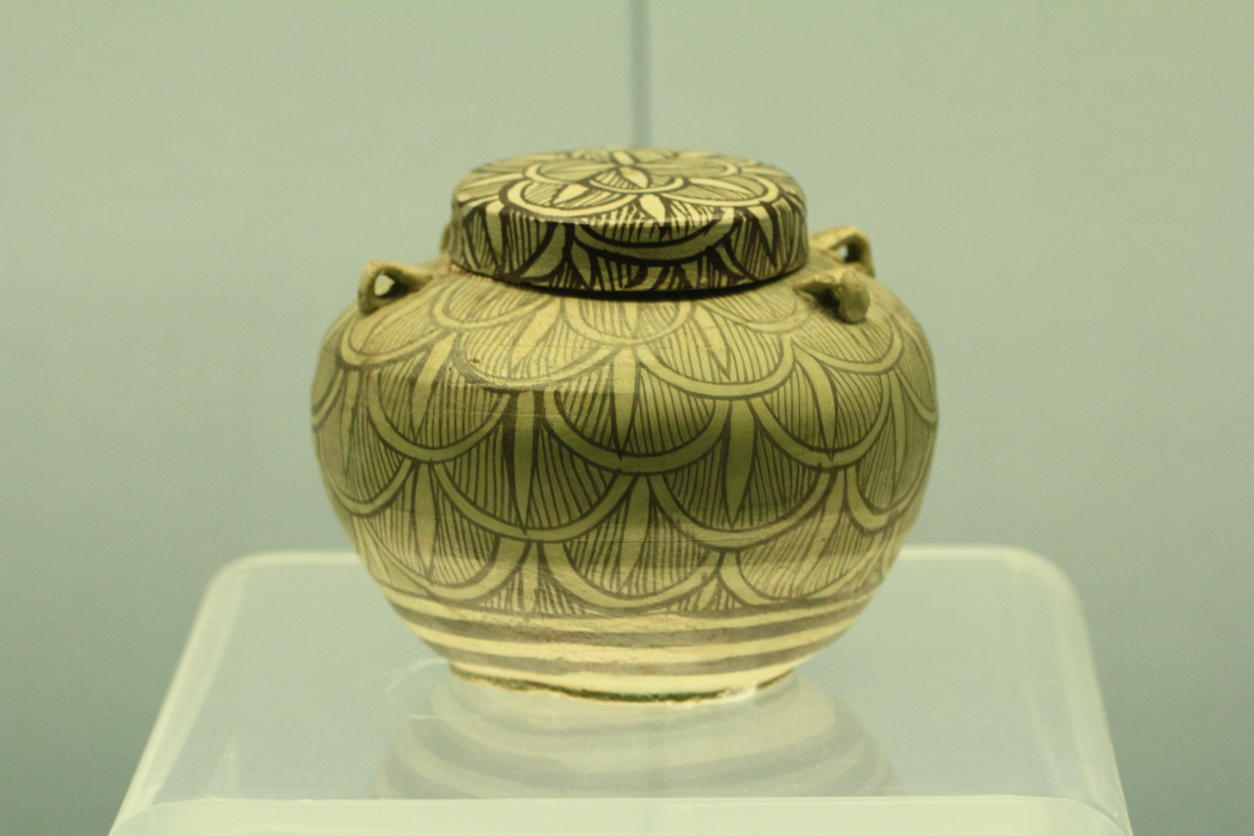 Covered jar with brown leaf design on white ground. Jizhou Ware. S.Song-Yuan, A.D. 1127-1368.